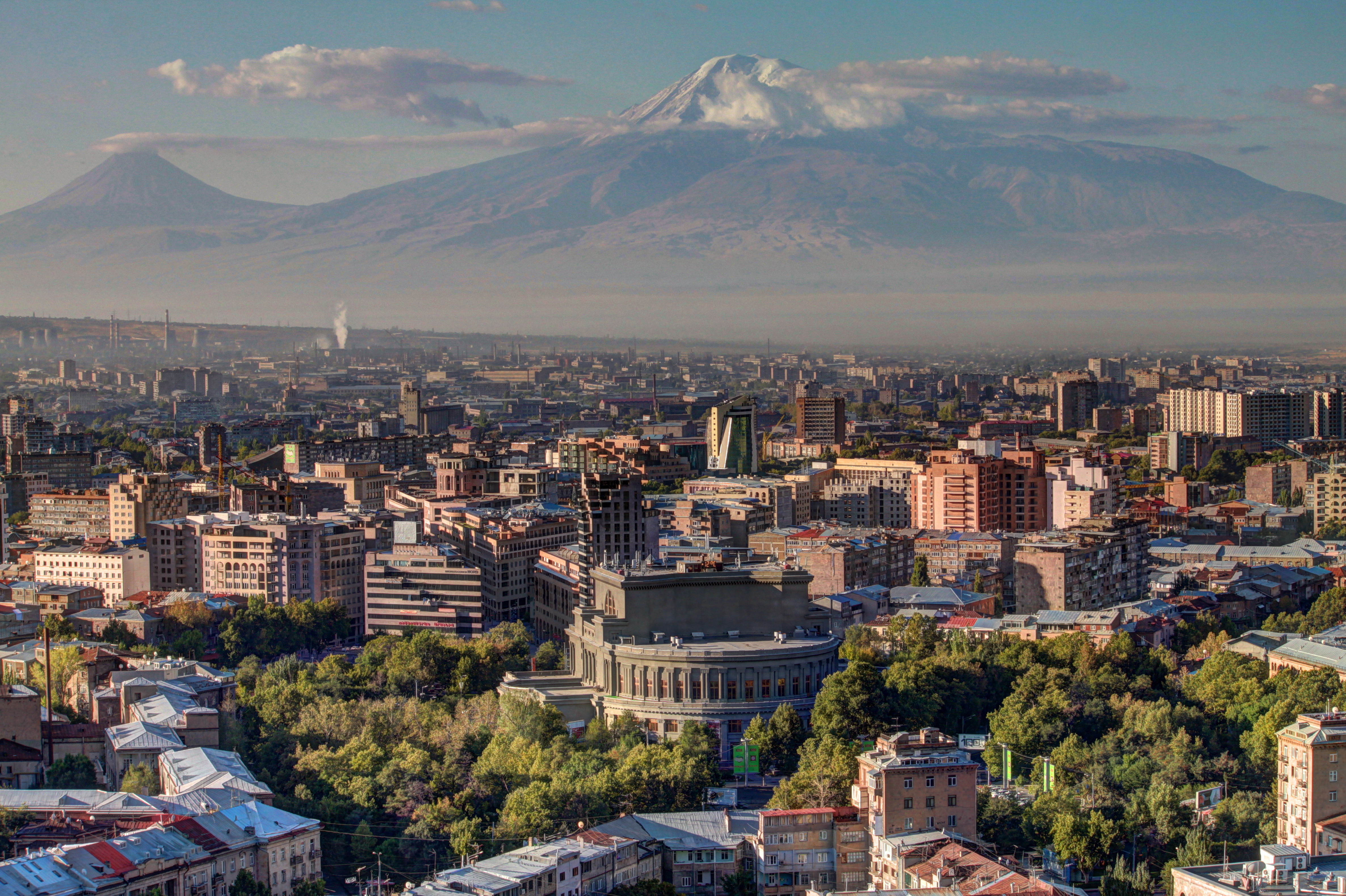 A view of Yerevan, the capital city of the Republic of Armenia, with the backdrop of Mount Ararat (locally known as Masis).